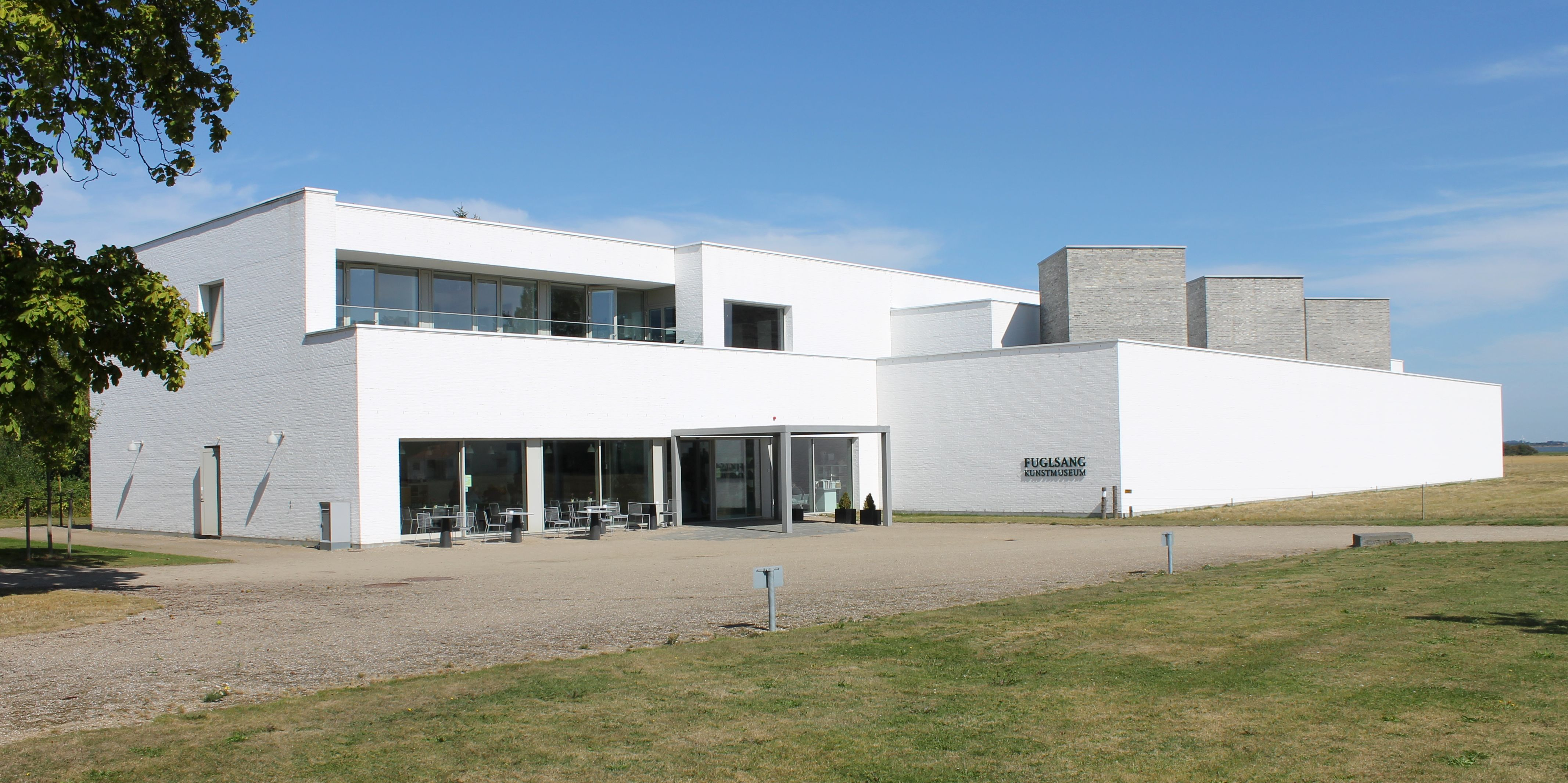 Fuglsang Kunstmuseum